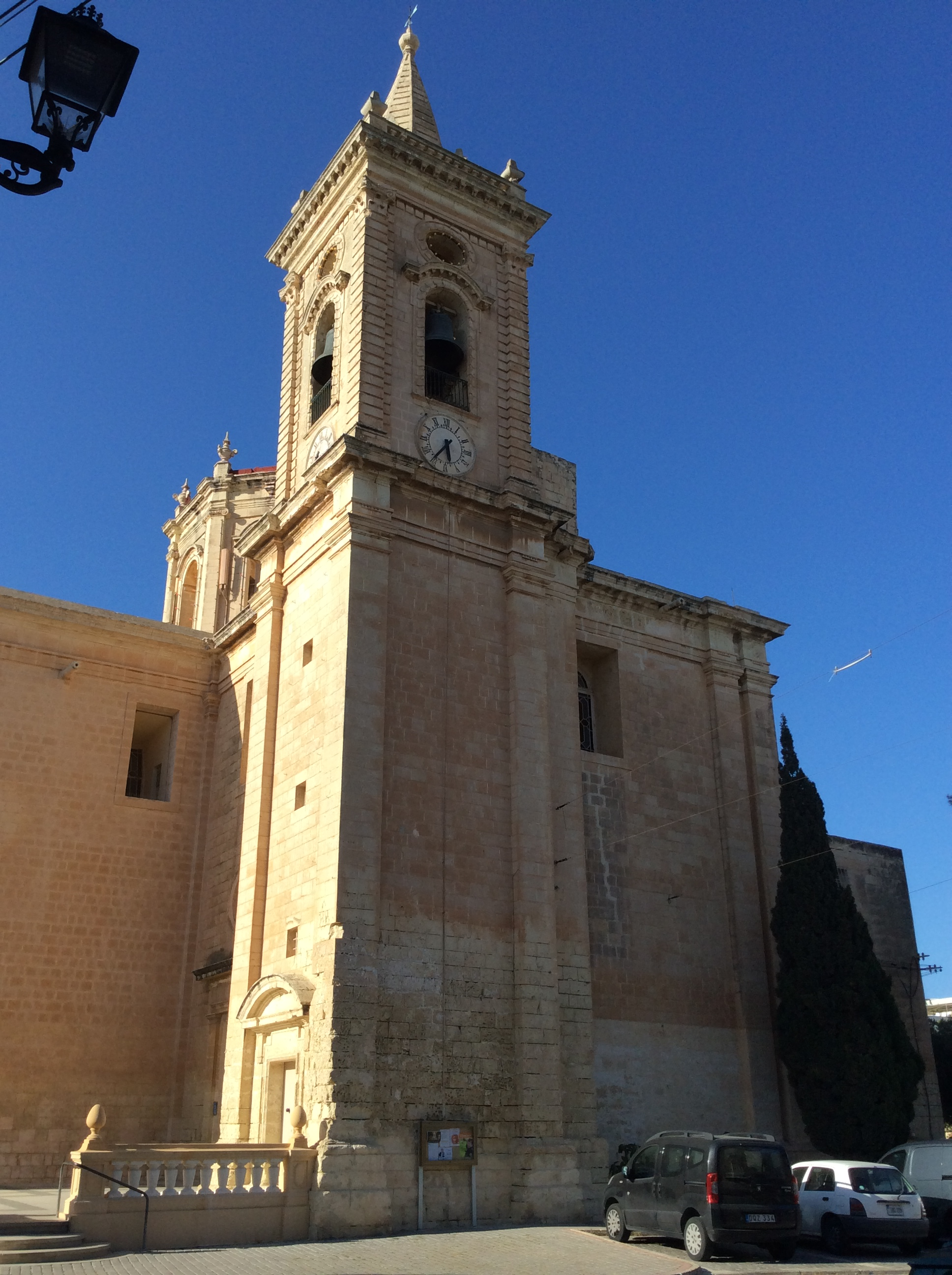 Balzan